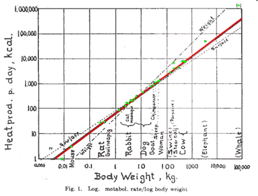 The original graph of body size versus metabolic rate hand-drawn by Max Kleiber